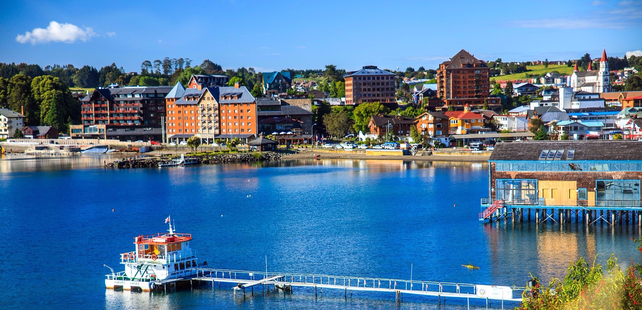 Puerto Varas, Chile scenes...